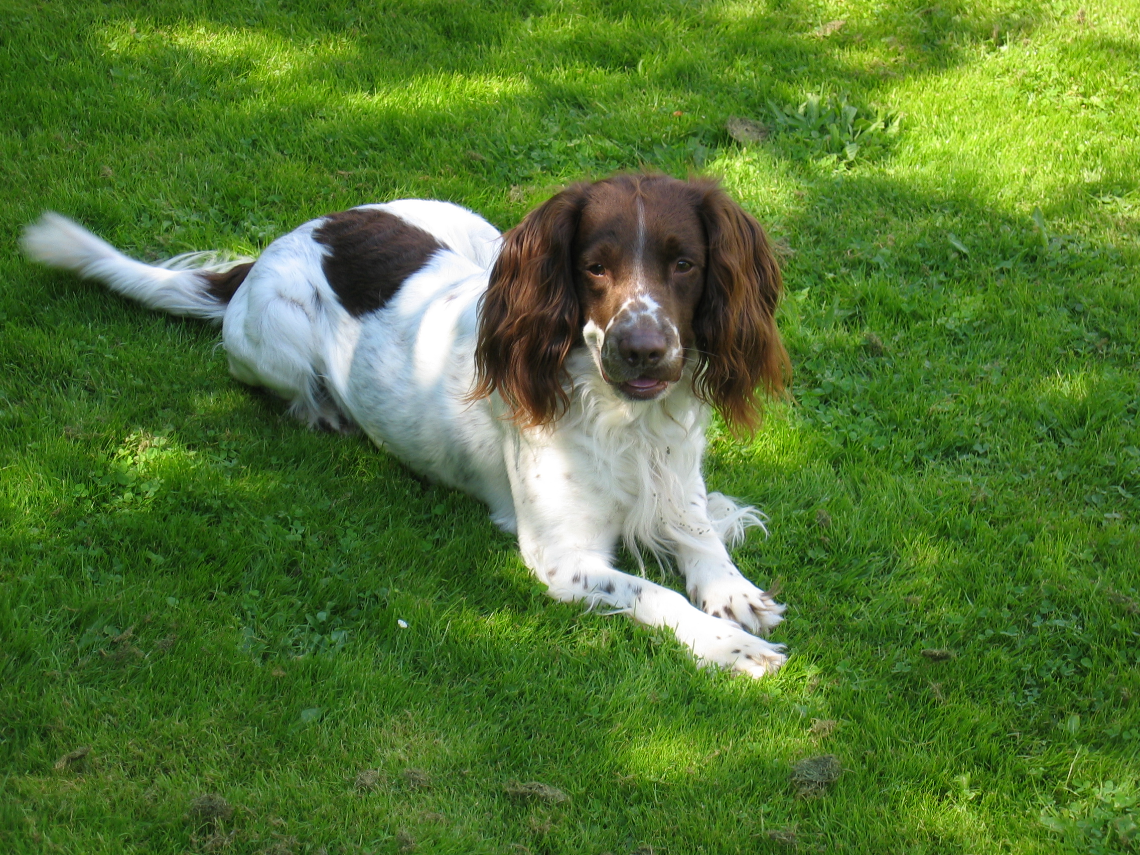 English Springer Spaniel. 5 years old